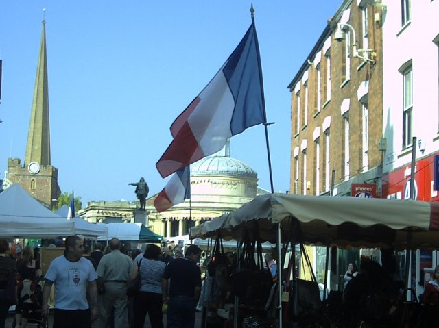 Le marche francais a Bridgwater